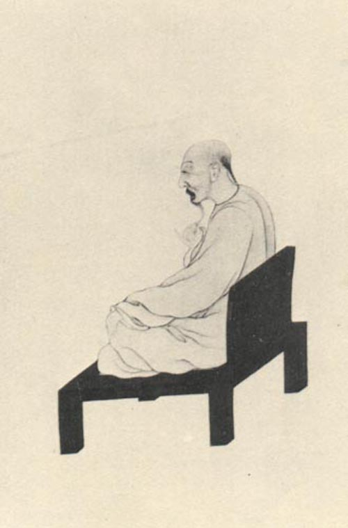 XI Gang, poet of the Qing Dynasty.